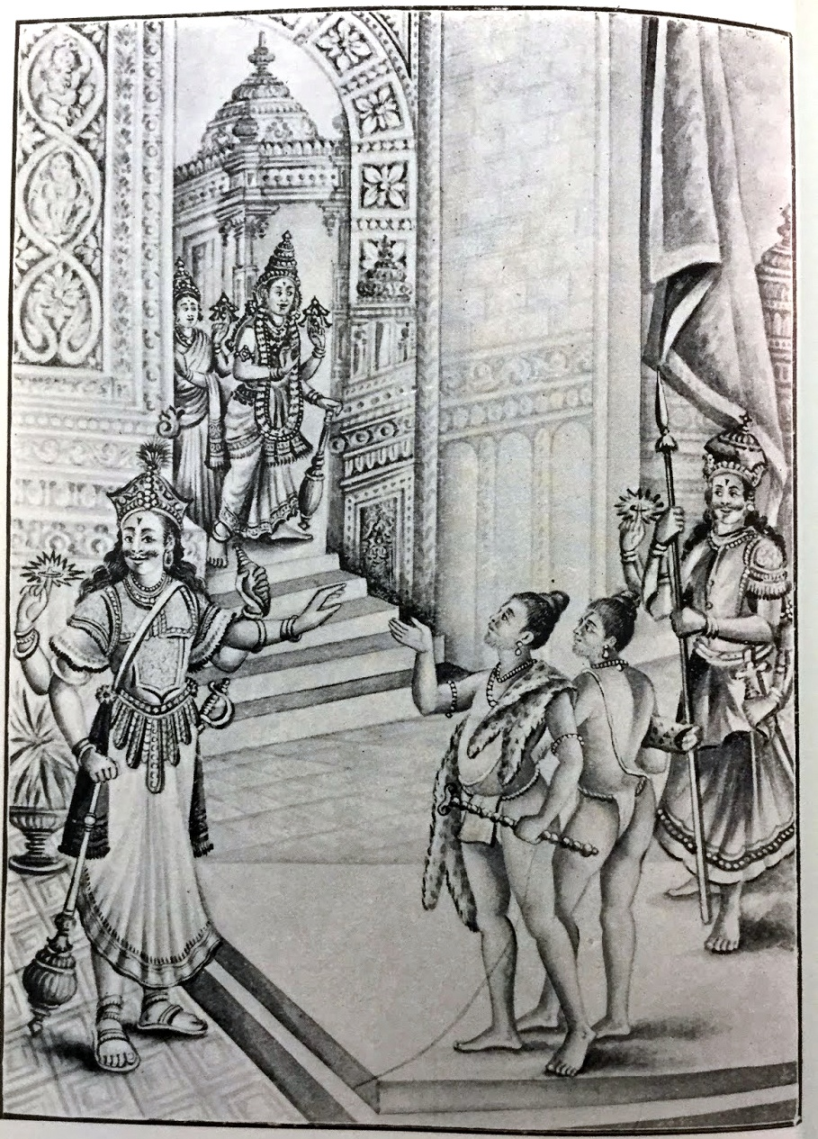 BHAGAVATA PURANA- RARE PICTURES